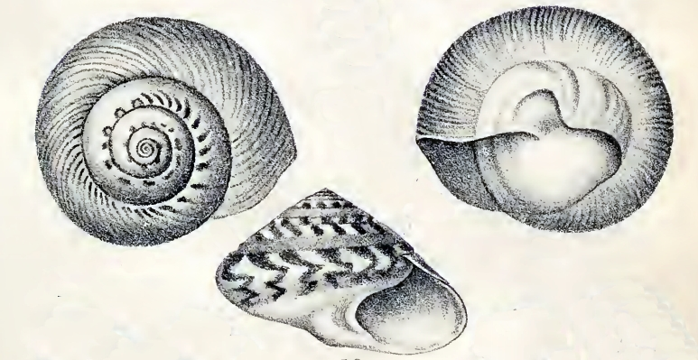 Umbonium giganteum (Lesson, 1831): family Trochidae